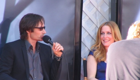 David Duchovny and Gillian Anderson at the premiere of "The X-Files: I Wanto To Believe"